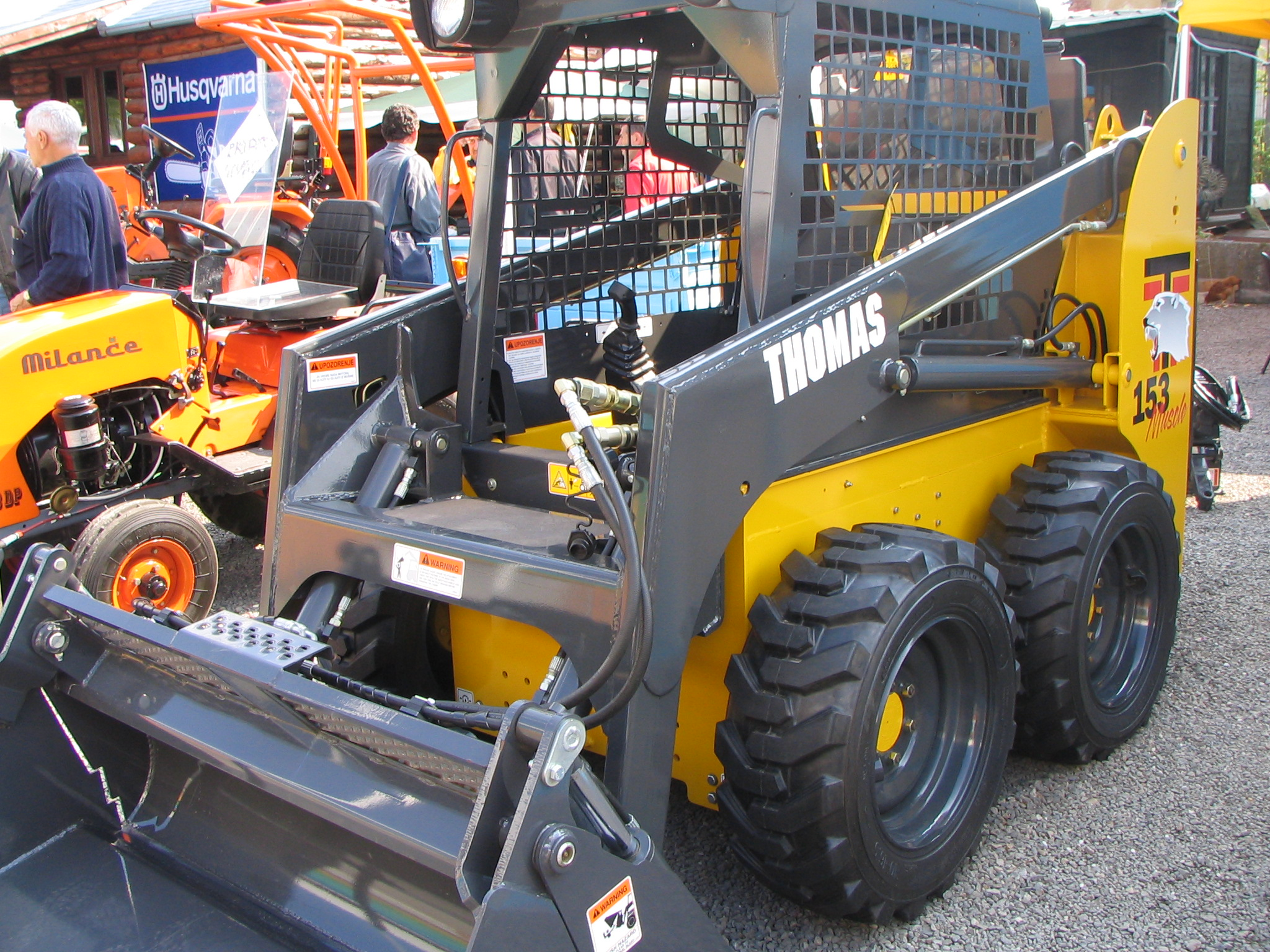 Compact tractor Agricultural fair Novi Sad (photo: Mihailo Grbić)